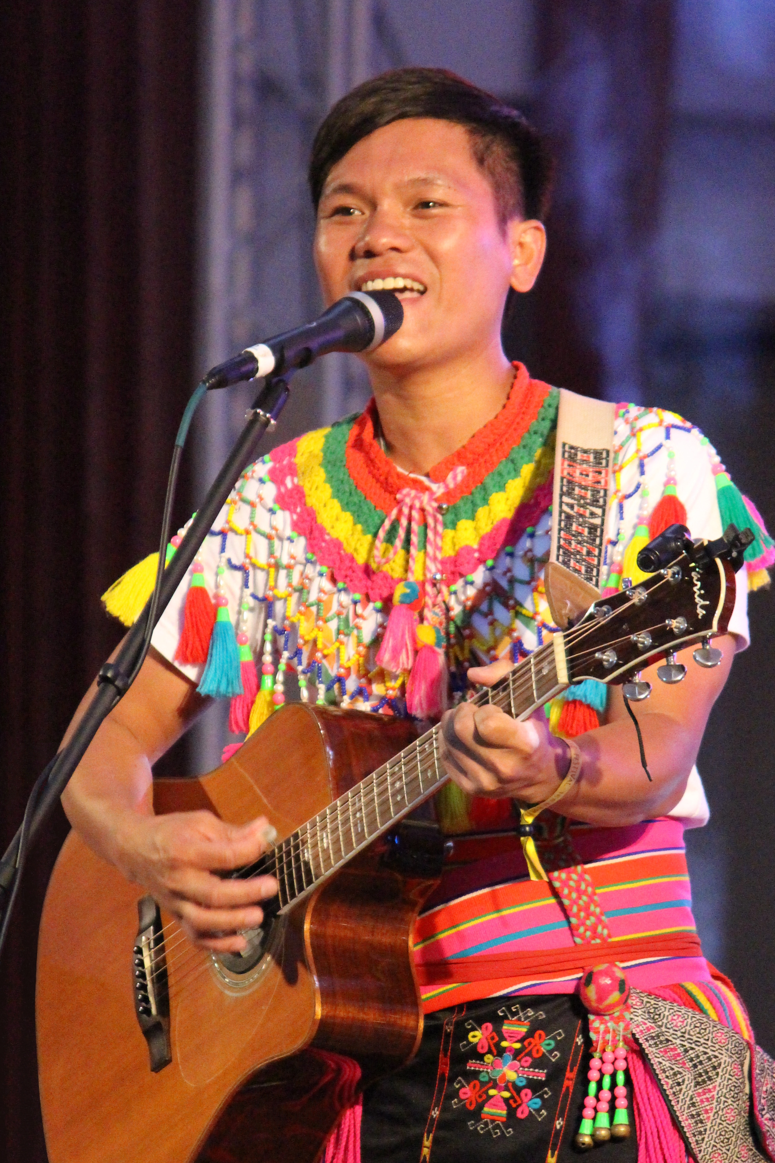 Taiwanese indigenous musician Suming Rupi (舒米恩) performing at the 2016 Amis Music Festival (阿米斯音樂節) in Dulan Village (都蘭), Taitung County, Taiwan